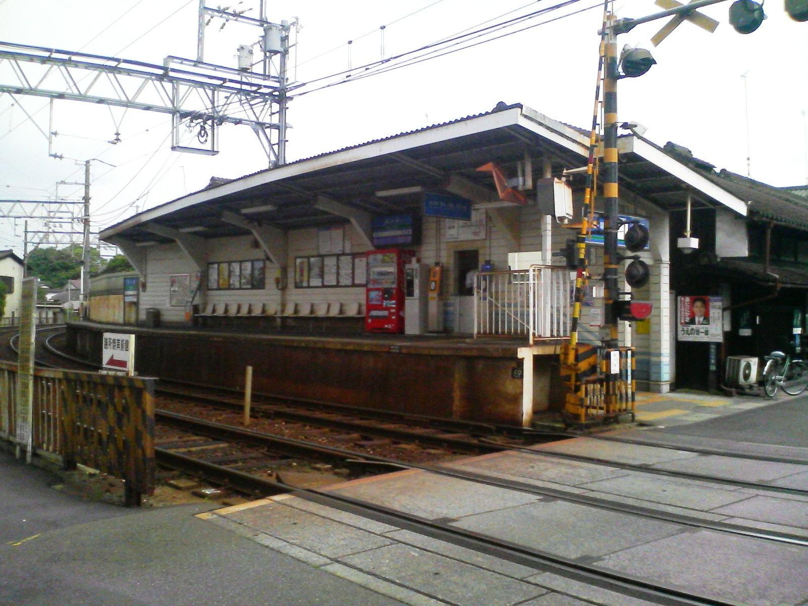 Keihan Kawaragahama Station and Kawaragahama Level Crossing